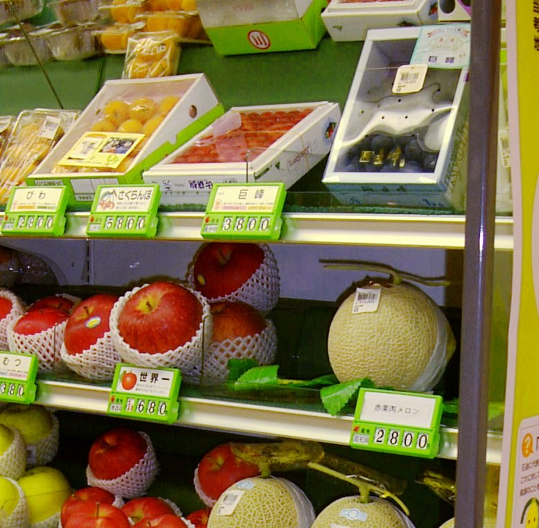 Fruit tends to be very expensive in Japan, as evidenced by these 2800 yen muskmelons in a Nakatsugawa supermarket. Photo taken by me on July 4, 2006.